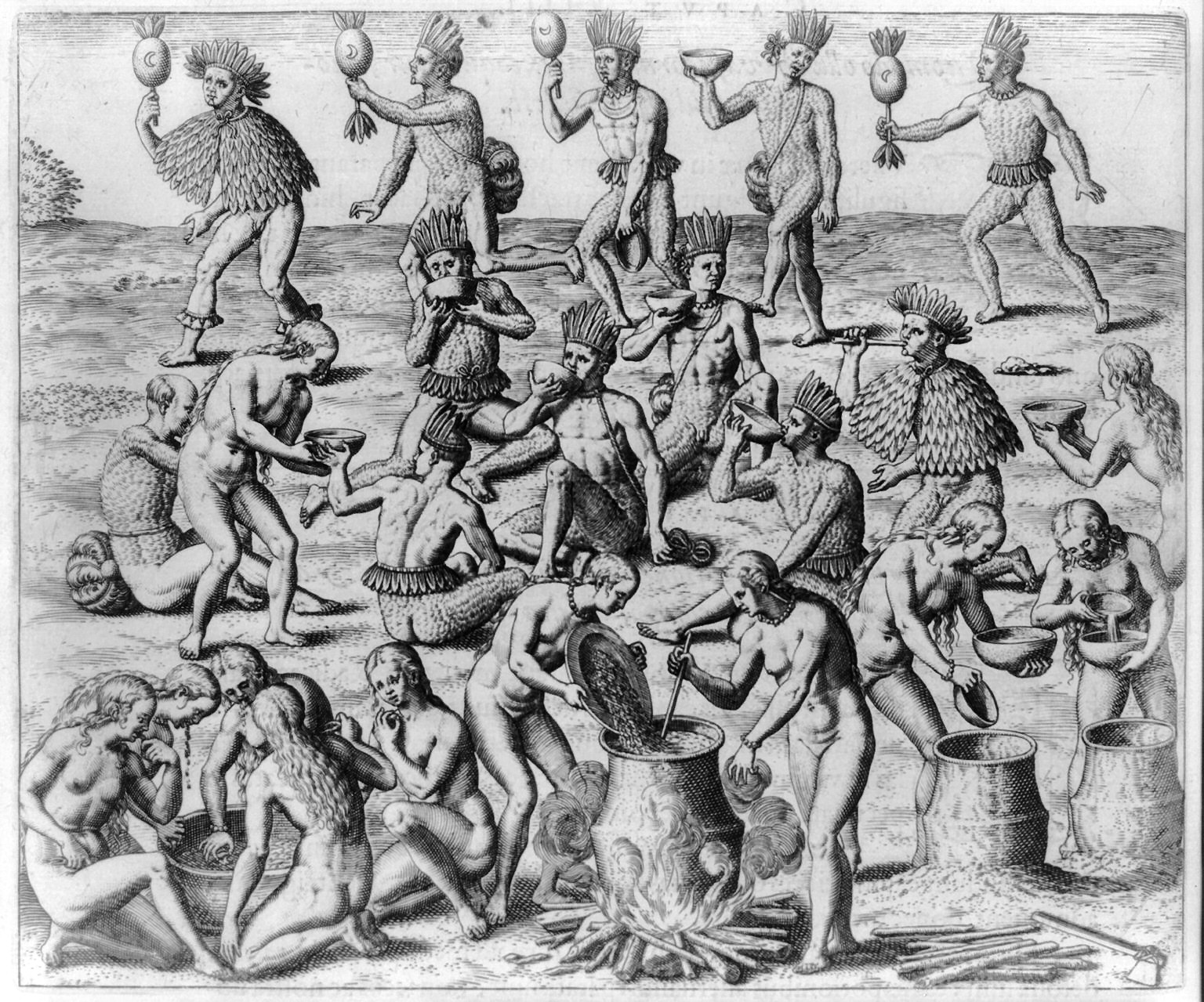 Title: Mandioka root [being] prepared by Indian women to produced a liquid brew. This makes the tribesmen drunk Abstract/medium: 1 print : engraving.